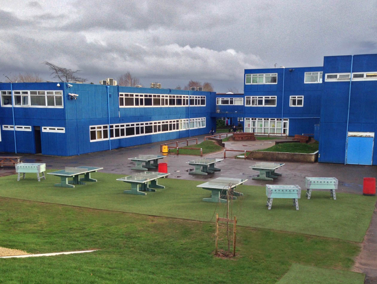 The repainted school buildings, work carried out over Summer 2012